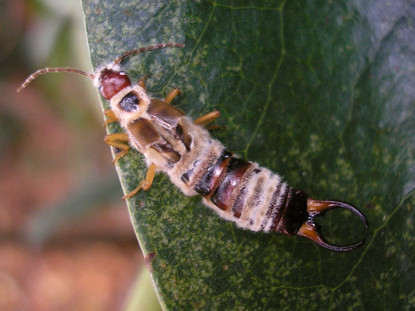 Dead male Earwig of species Forficula auricularia with fungus - possibly Entomophaga (?) Location: Enschede (Overijssel), Netherlands